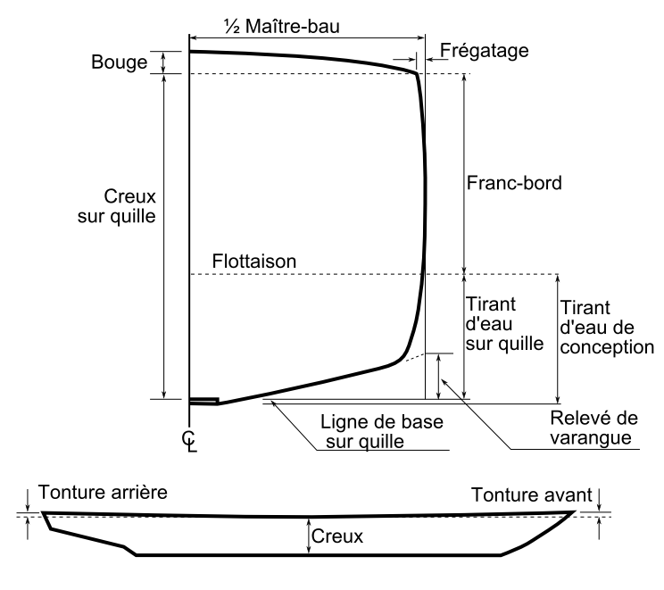 Various elements of a ship's hull shape.